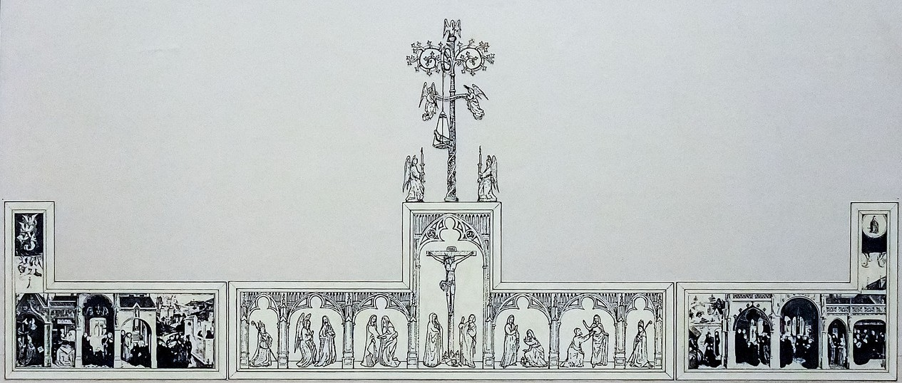 Simon Marmion: Omer-Retabel, Rekonstruktion Festtagsseite [1459]